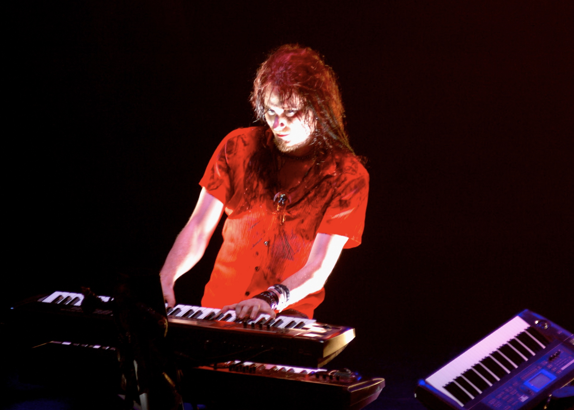 Tuomas Holopainen playing keyboards at a Nightwish concert at The Palais in Melbourne, Australia, in January 2008.